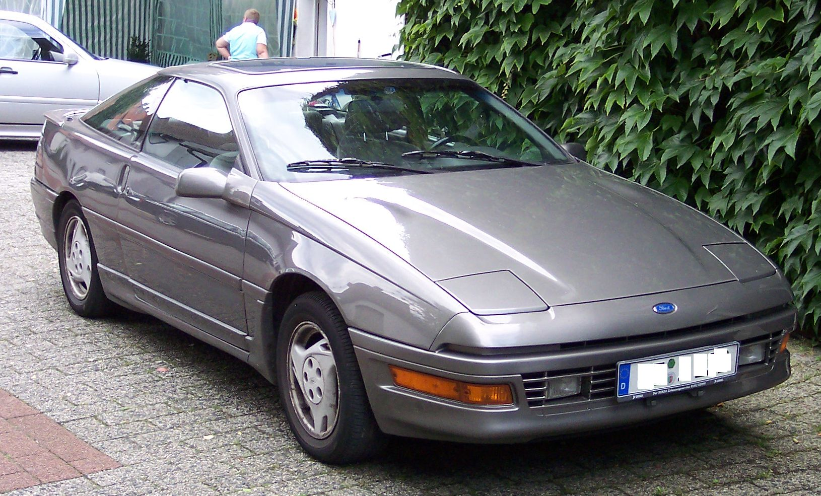 Ford Probe